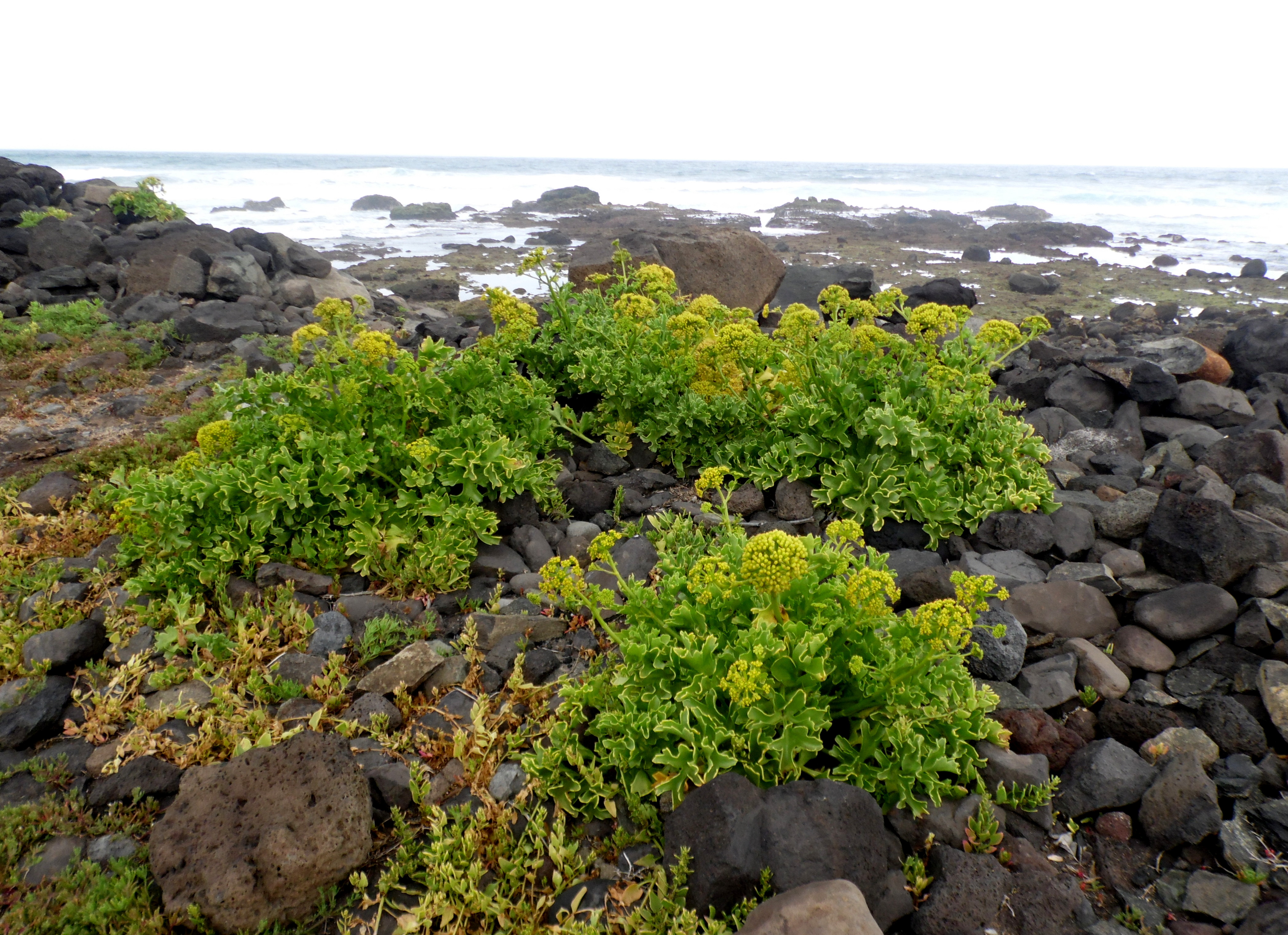 Astydamia latifolia on Atlantic coast in Arucas, Gran Canaria